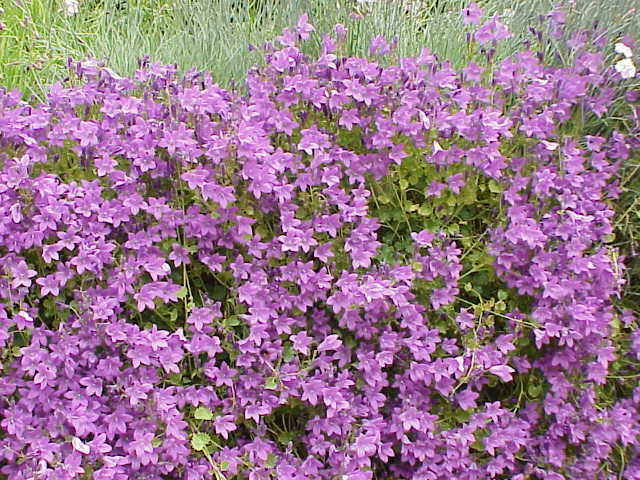 Species: Arenaria procera glabra Family: Caryophyllaceae Image No. 2